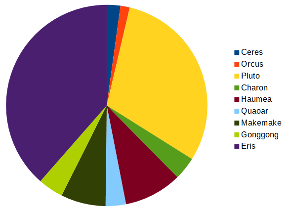 Masses of the most likely dwarf planets compared, with Charon (as of 2019). Sedna is not included because its mass is unknown.